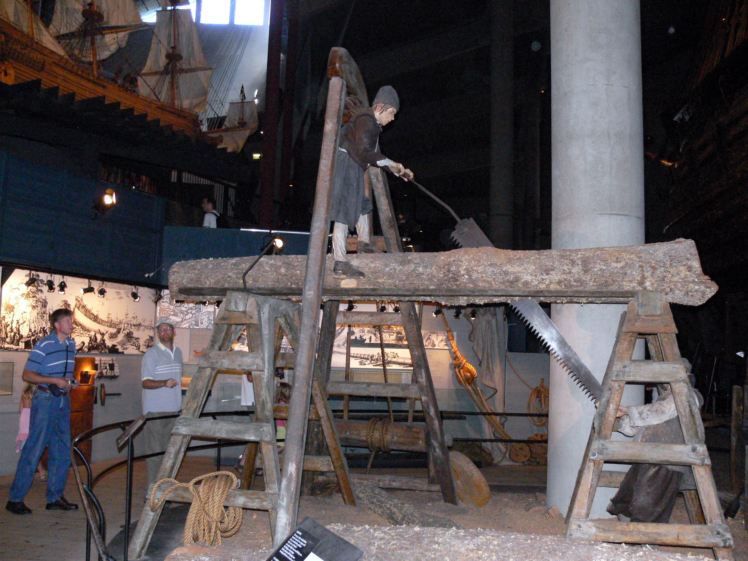 Vasa ship ( 1627 ). Building a ship: Sawing of beams.